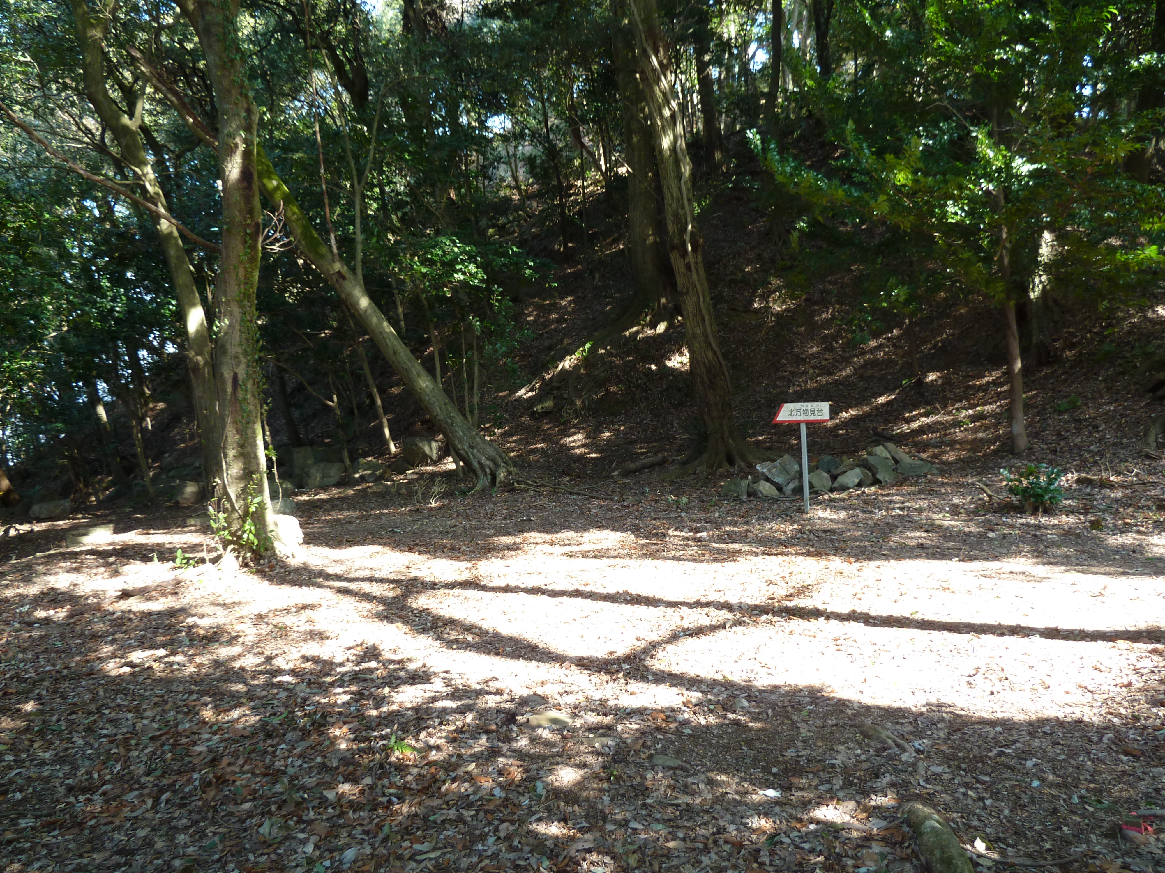 西腰曲輪